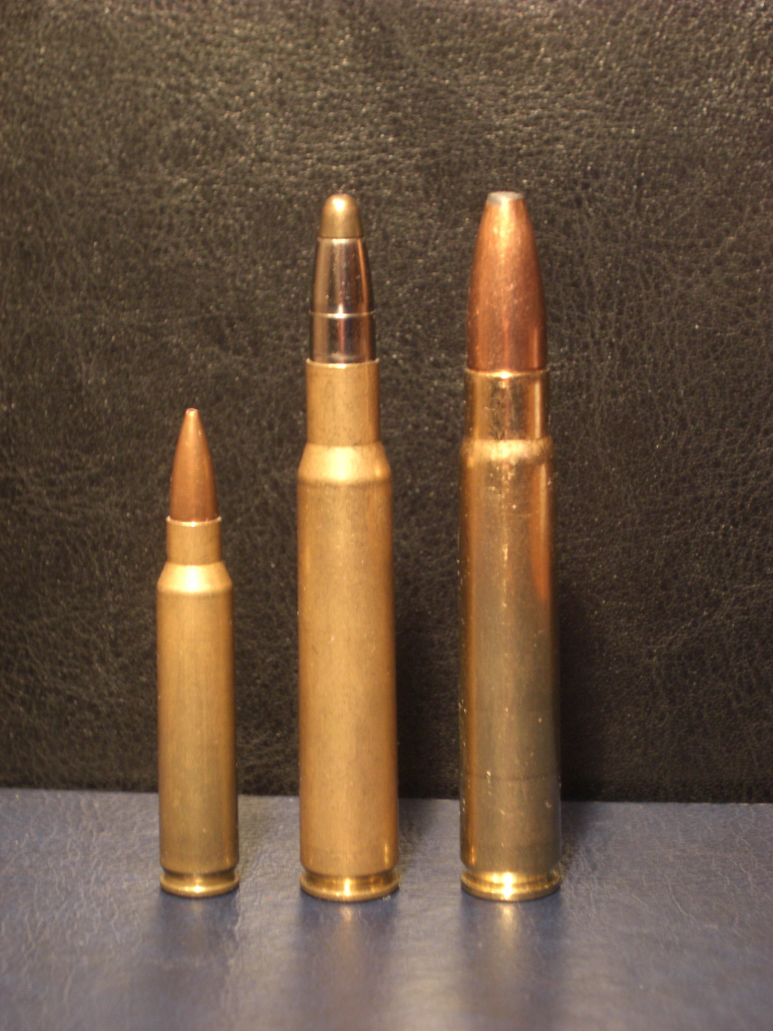 9,3×62 Mauser compared with .30-06 and .223 Rem